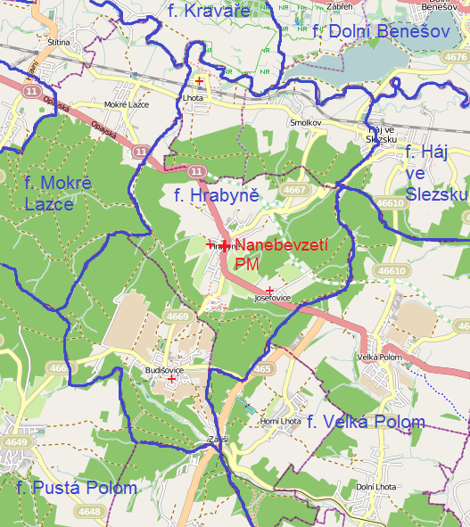 Hrabyně parish (2013). Position of the parish church and chapels marked. This map of Hrabyně parish was created from OpenStreetMap project data, collected by the community. This map may be incomplete, and may contain errors. Don't rely solely on it for navigation.